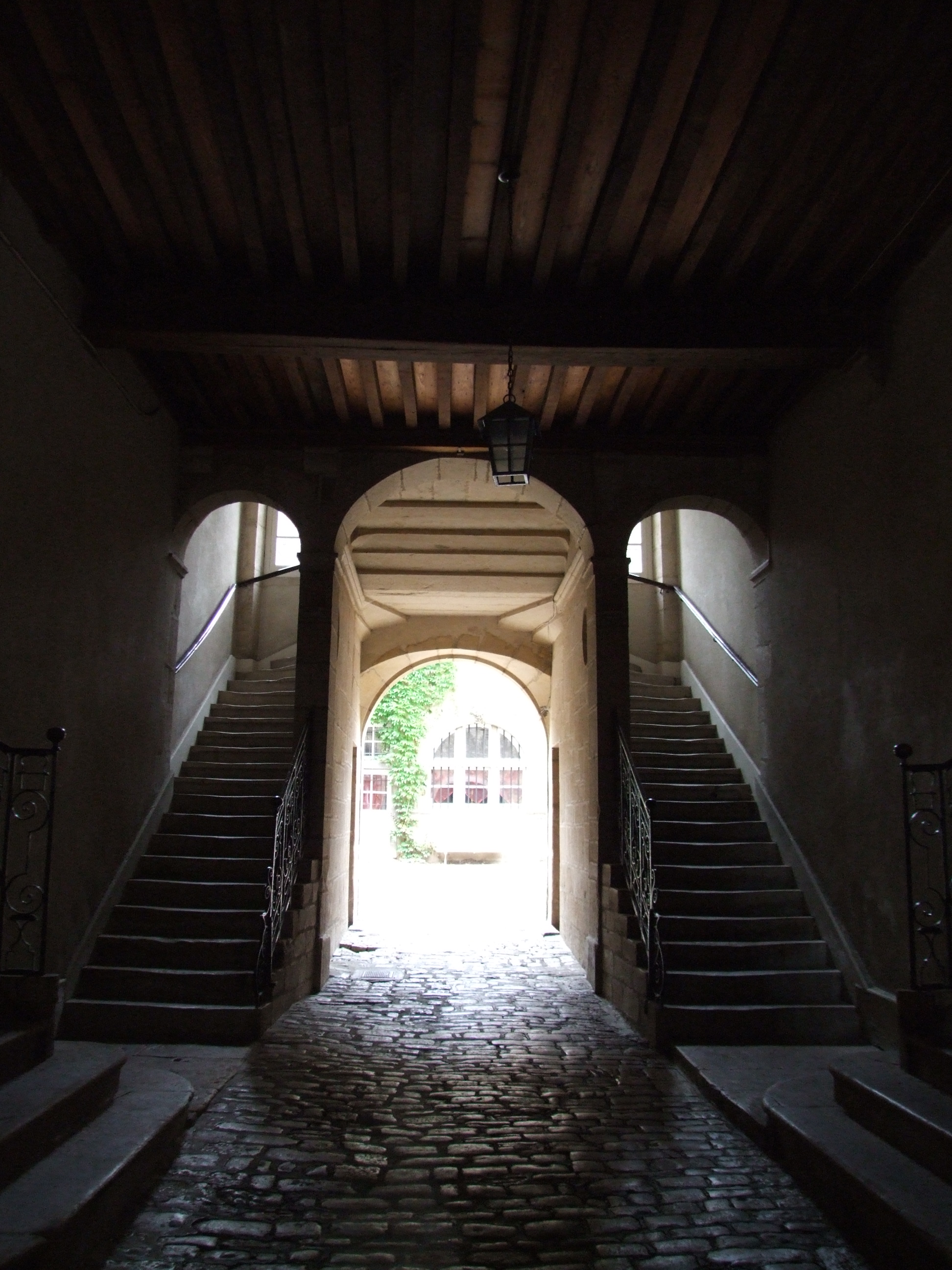 Staircases, Dole, Jura, FRANCE